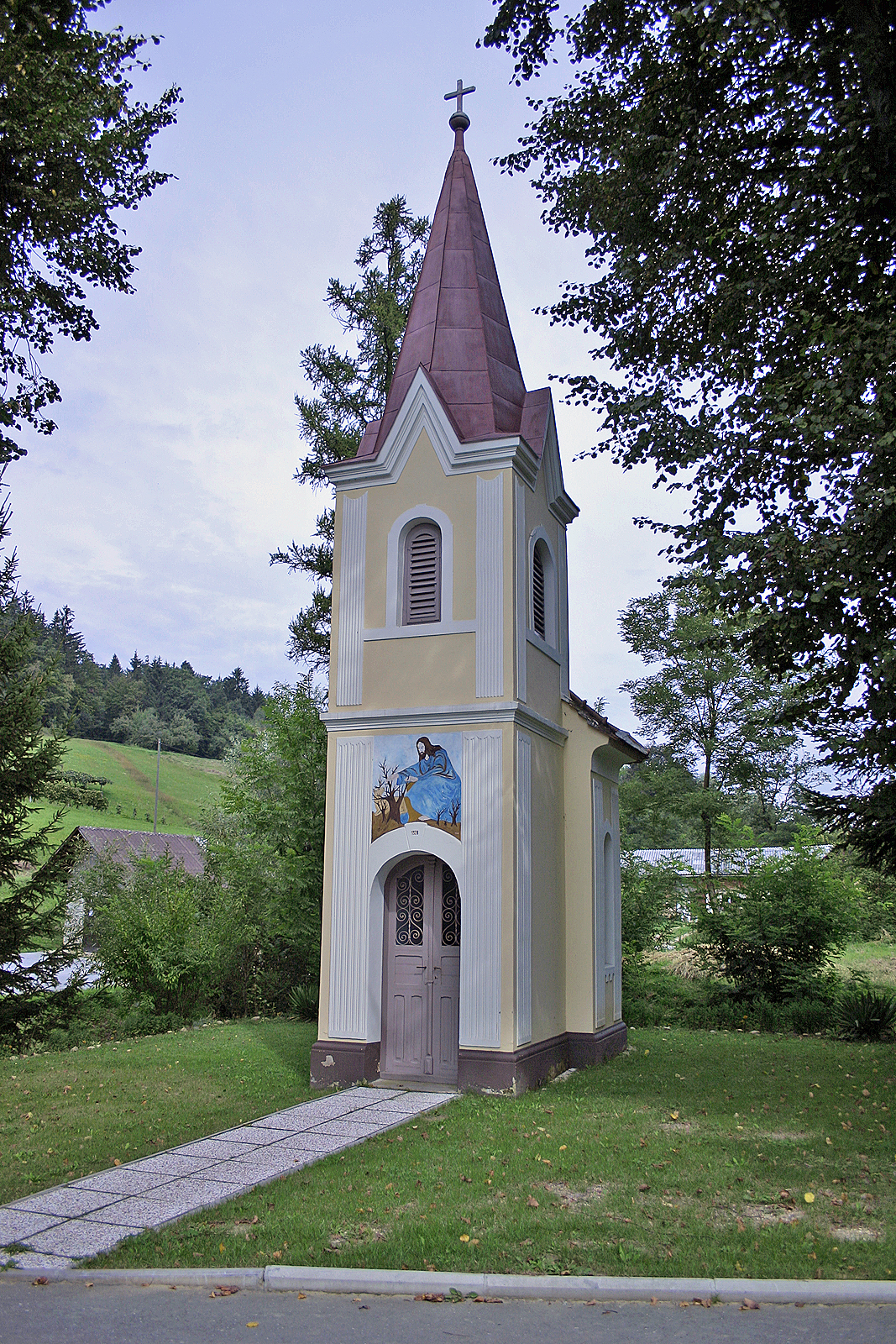 Farič Chapel, Vidonci (northeastern Slovenia).